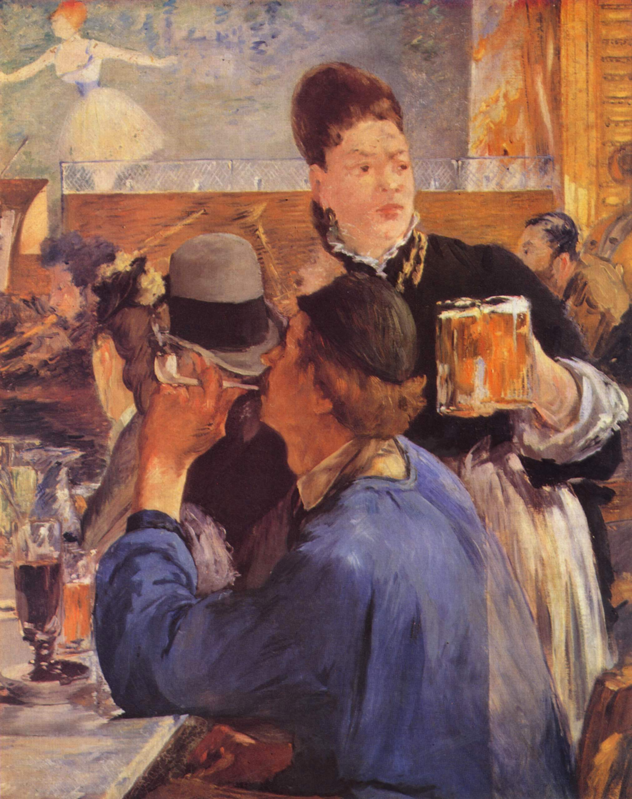 This work was originally the right half of a painting of the Brasserie de Reichshoffen, begun in about 1878 and cut in two by Manet before he completed it. This half was then enlarged on the right and a new background was added. The left half of the composition is in the Museum Oskar Reinhart, Winterthur. The Brasserie de Reichshoffen was in the Boulevard Rochechouart, Paris. At the time, brasseries with waitresses were fairly new in the city.